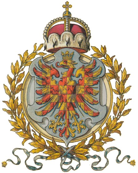 Unnoficial (not adopted) historical coat of arms of the Margraviate of Moravia